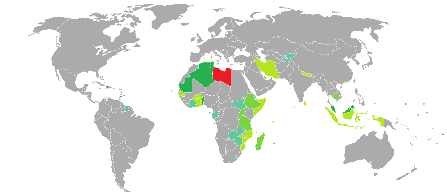 Visa requirements for Libyan citizens Libya Visa free access Visa on arrival eVisa Visa available both on arrival or online Visa required